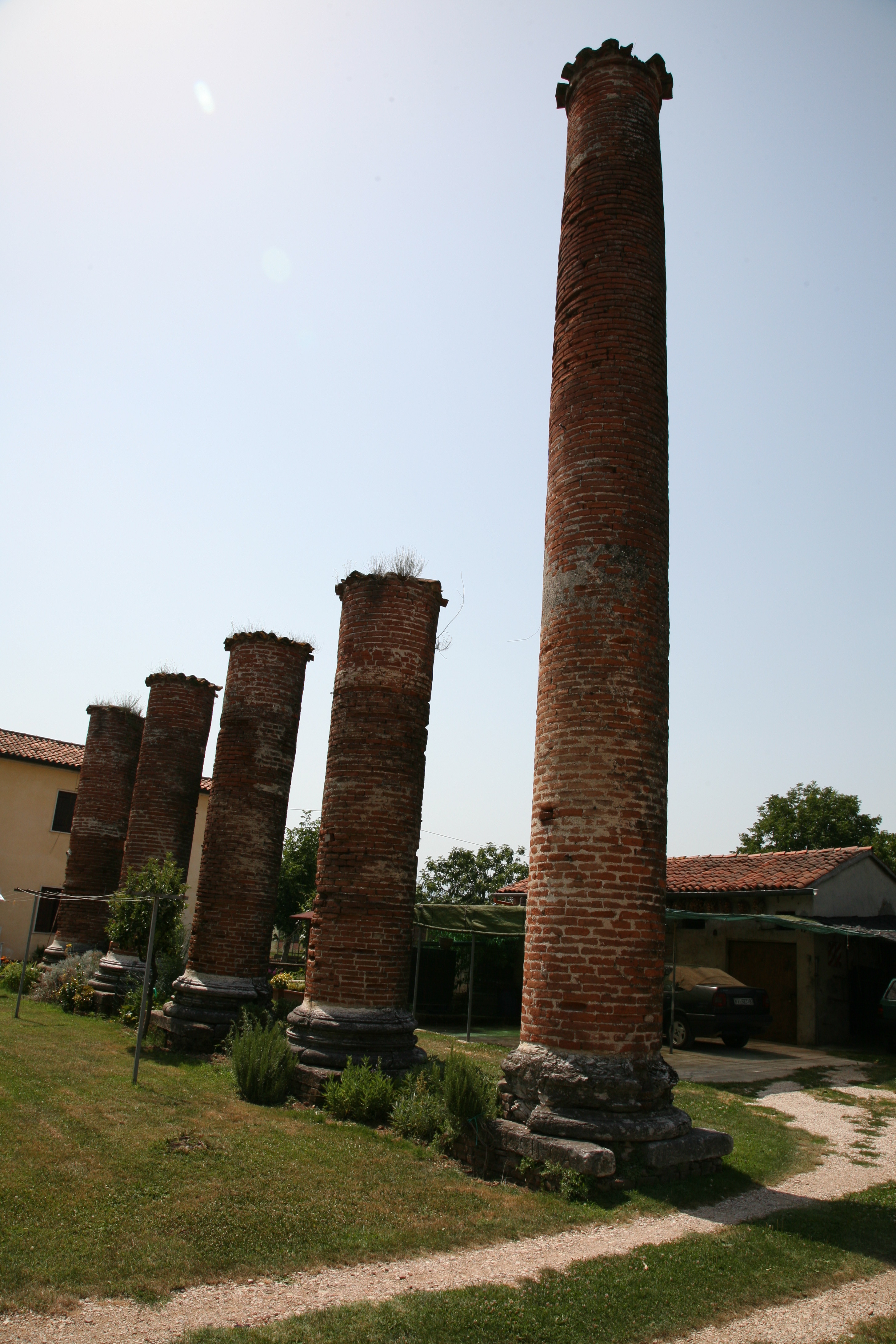 Only columns exists of the villa Palladio concieved on behalf of Iseppo Porto